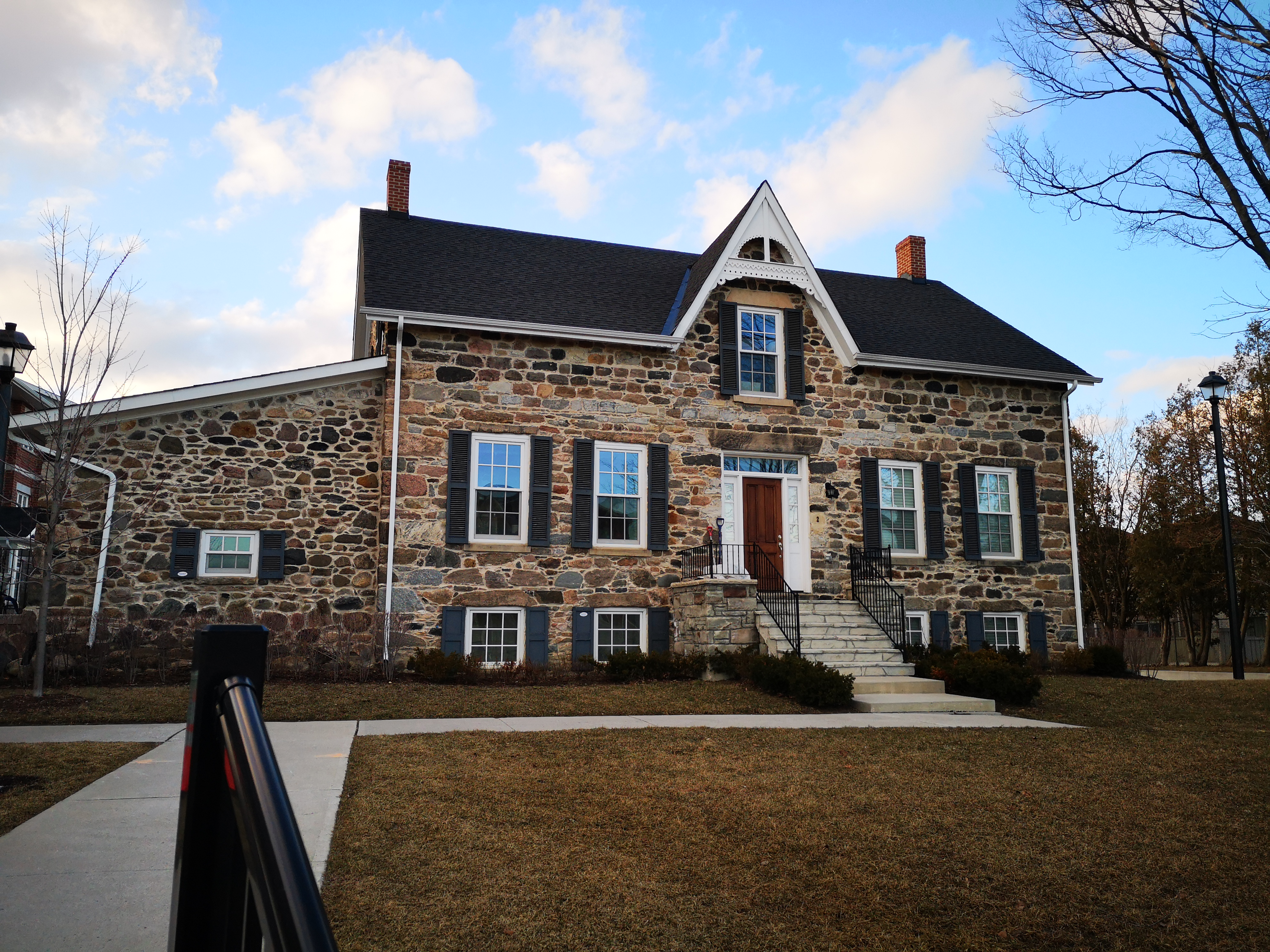 Thomson-Bell House at 80 Bell Estate Road in Scarborough Junction, a neighbourhood of Scarborough, Toronto. The building was erected in 1840.